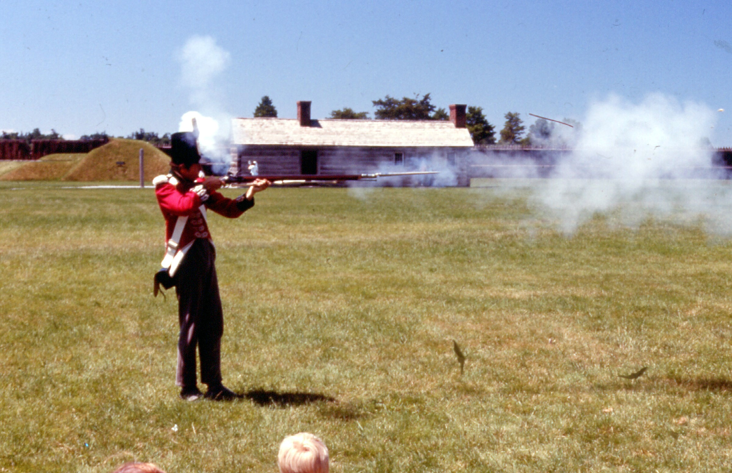 Musketeer demonstrates his weapon at Fort York, Toronto. This was the beginning of the expression "the fog of war". Mass volleys of black powder muskets would creat so much smoke that soldiers could not see if they had hit anyone.